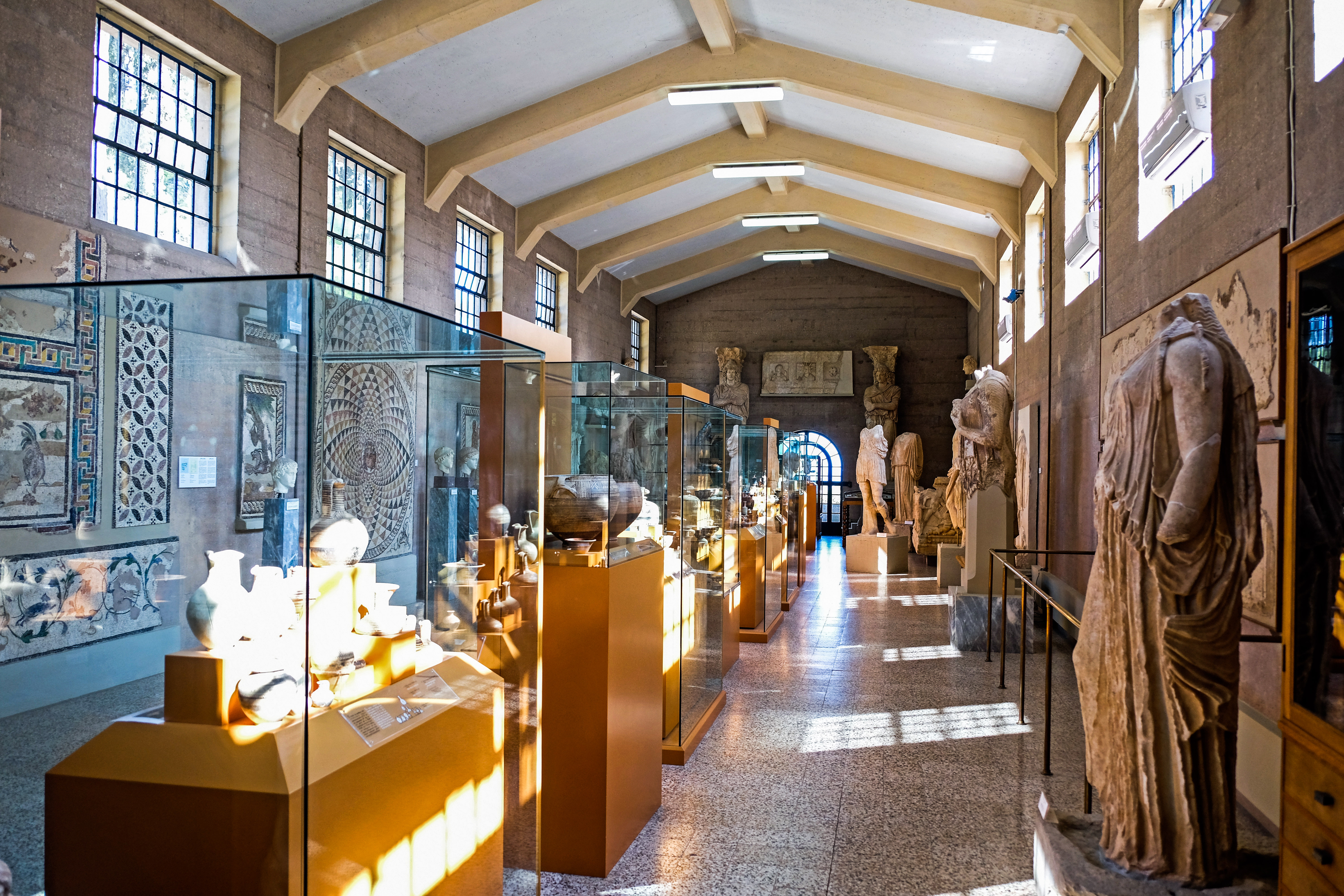 Room of Archaeological Museum of Ancient Corinth